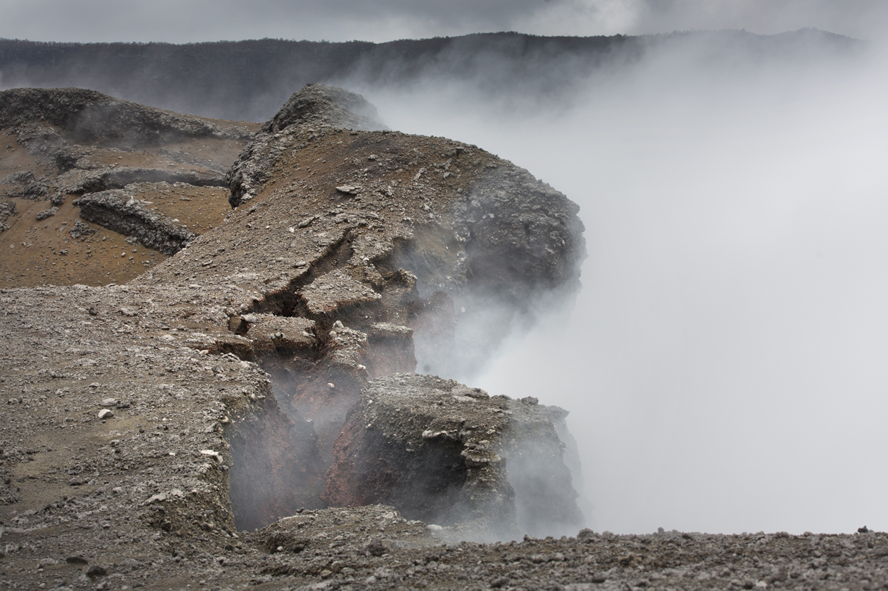 Landscape of Nyamulagira crater, Nyamulagira is one of the most active volcano in the region and enters in eruption once every 2 years. the 17th of March 2014. © MONUSCO/Sylvain Liechti